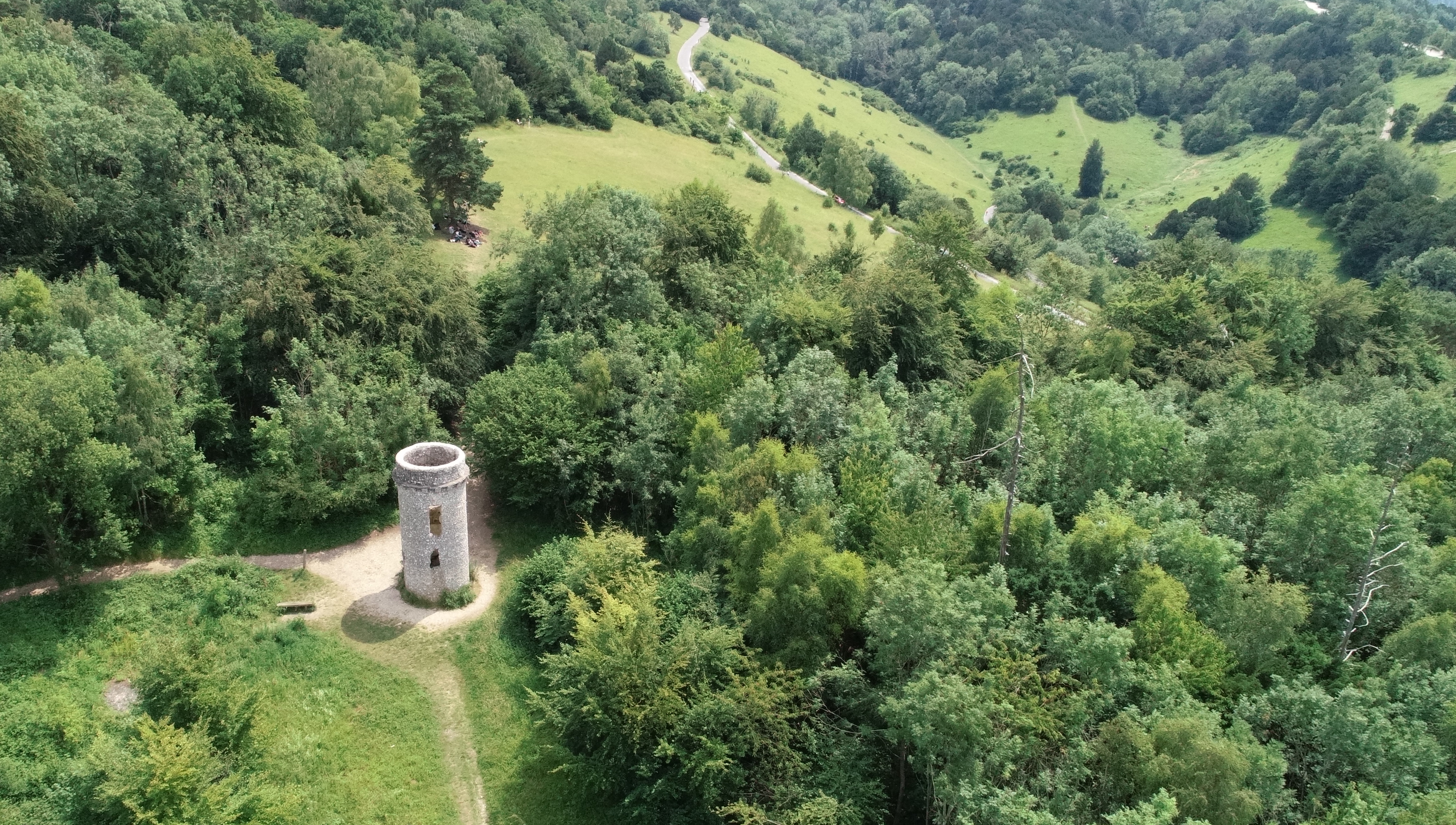 DCIM\100MEDIA\DJI_0090.JPG Wikidata has entry Q26670817 with data related to this item.